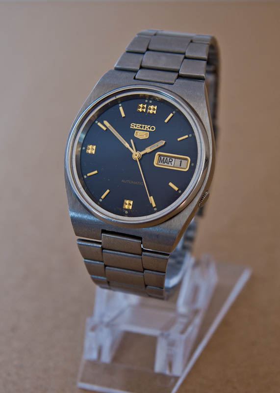 Automatic Watch made by Seiko